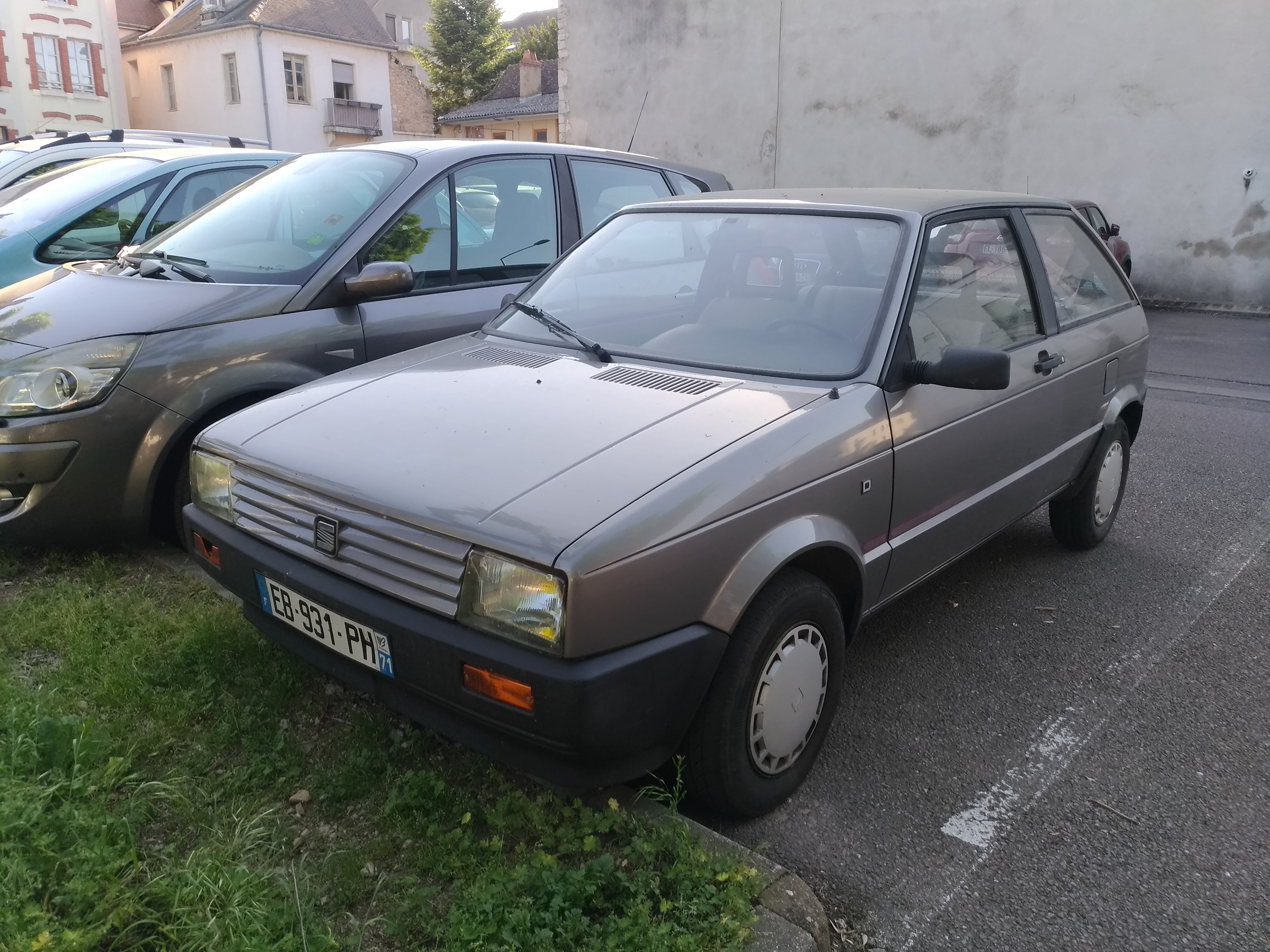 1991 Seat Ibiza "Special" at Chalon sur Saone